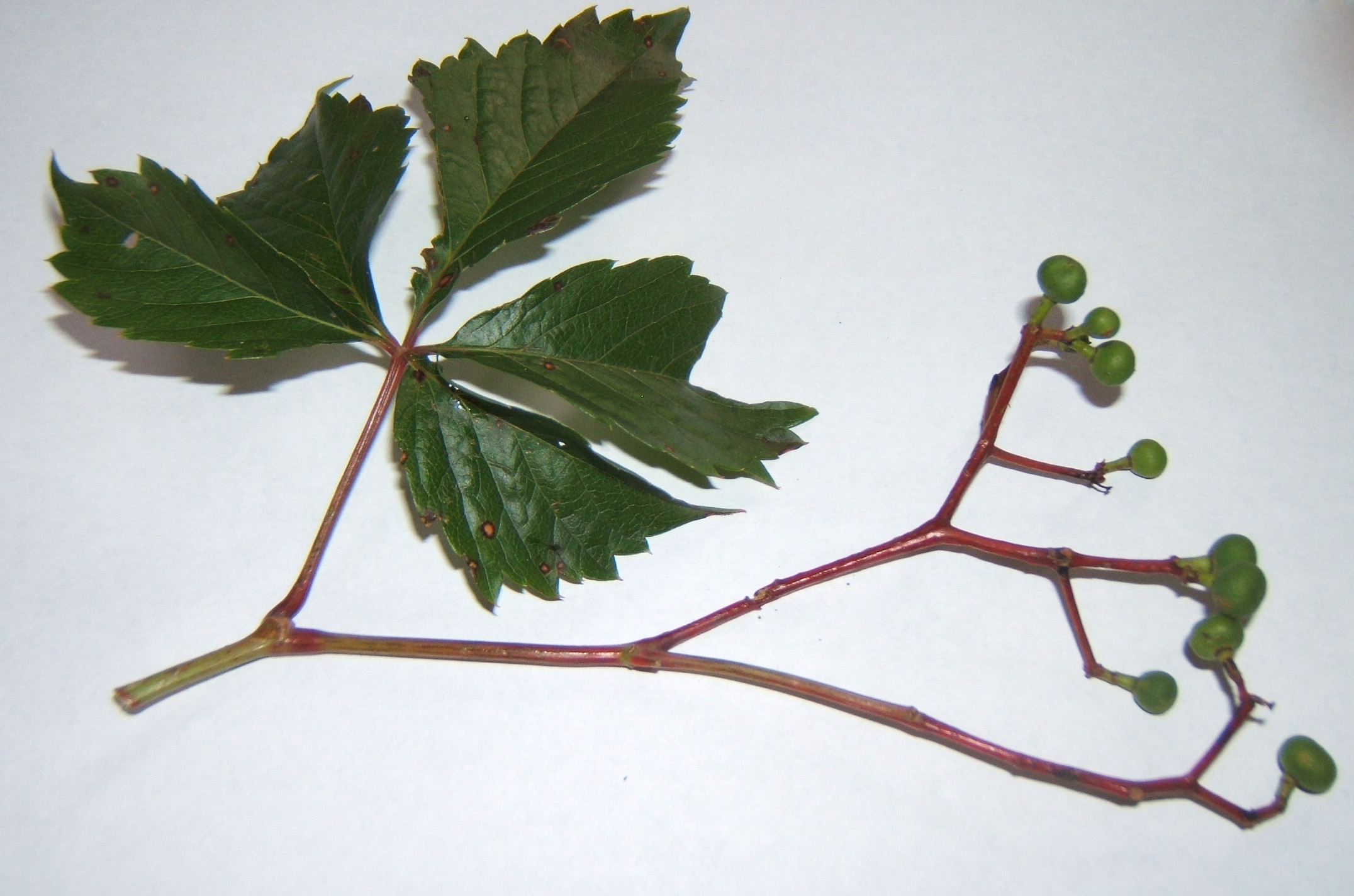 A photograph of a Parthenocissus vitacea plant taken in Shoreview, Minnesota. The photo details leaf structure and the fruit of the plant.